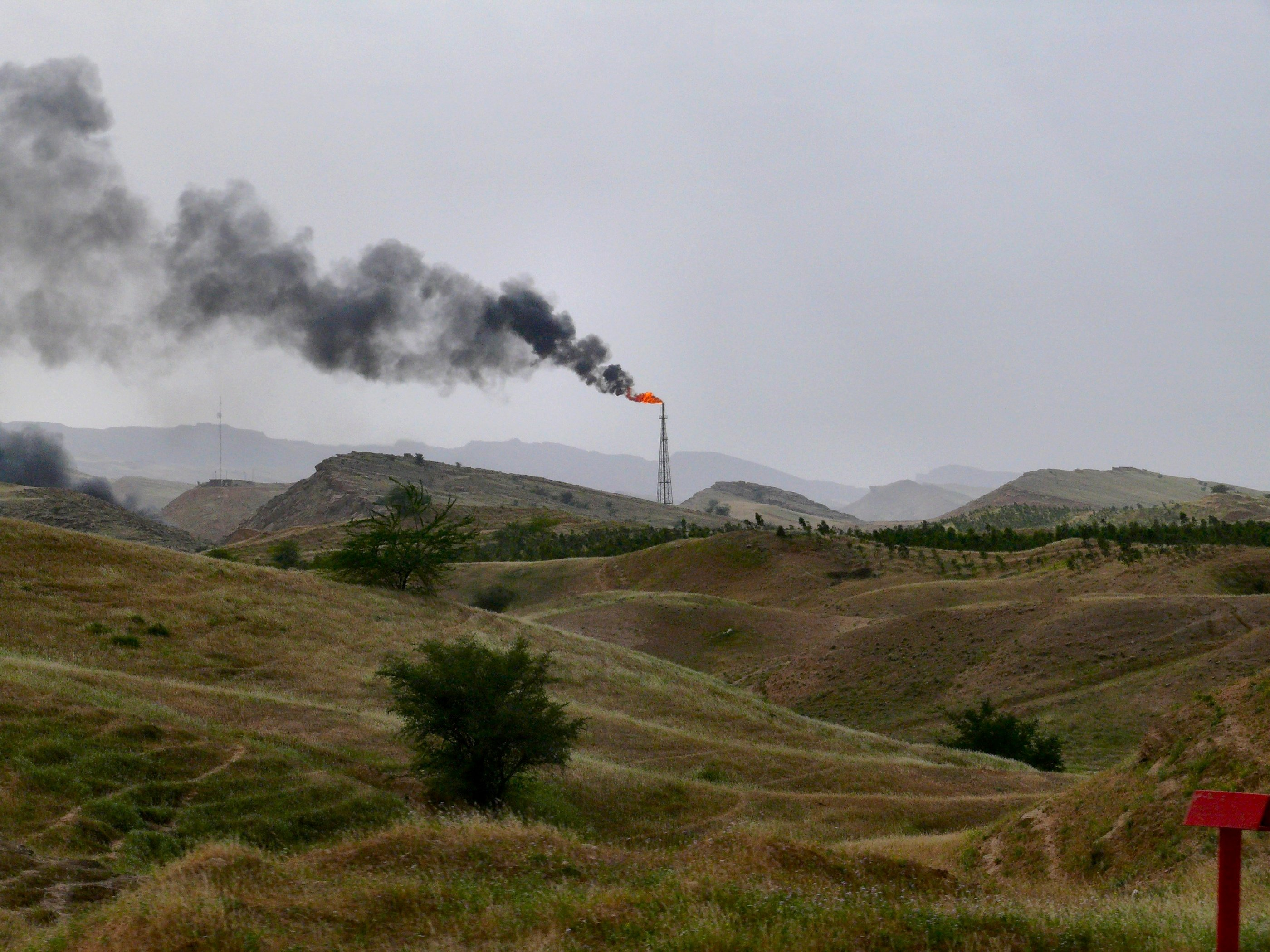 Dark smoke from a gas freestanding chimney. In natural gas & oil fields near Ahvaz, in Ahvaz county, Khuzestan province, western Iran. April 2008.